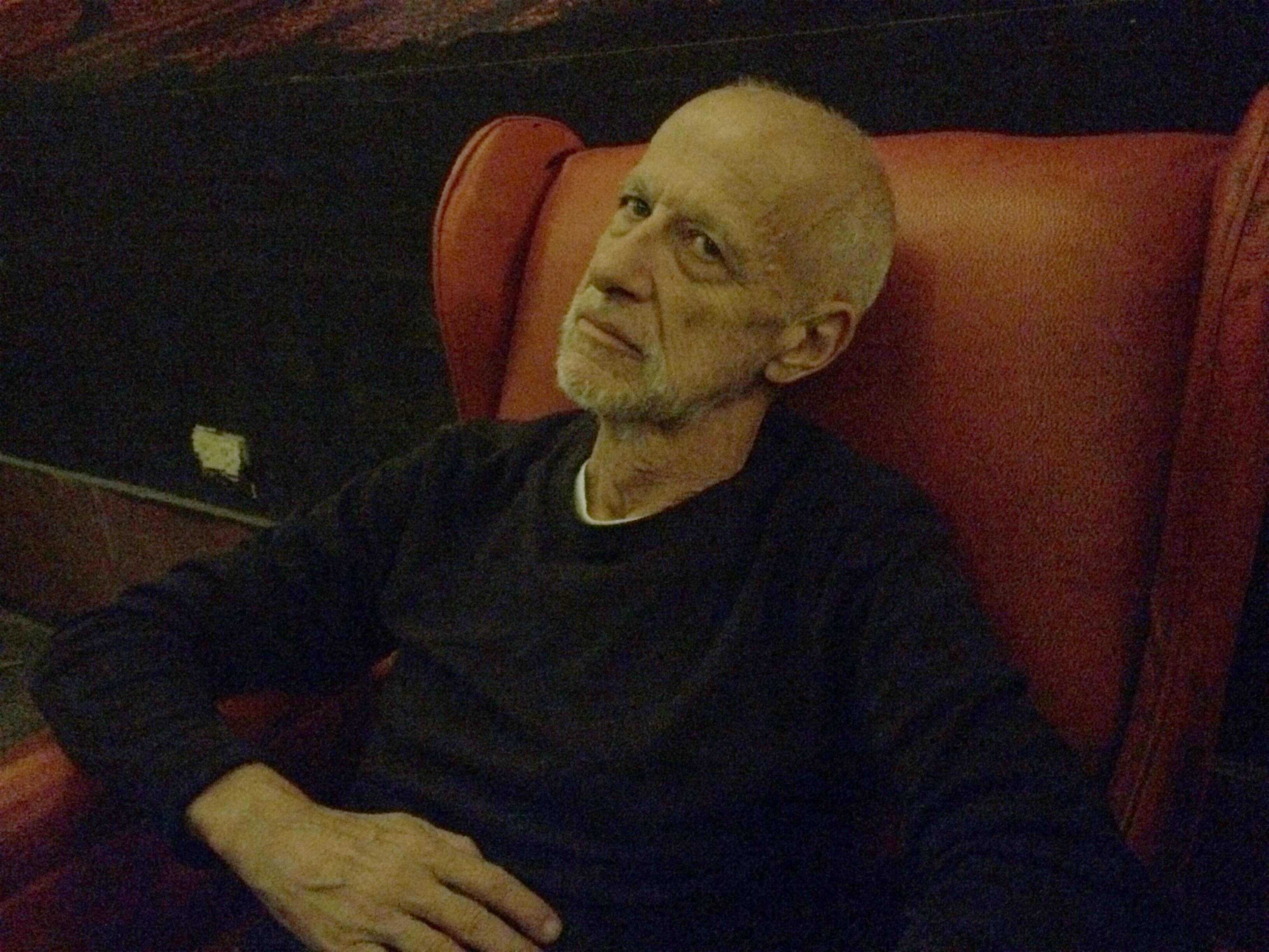 Después de una tocada en un bar de Barranco